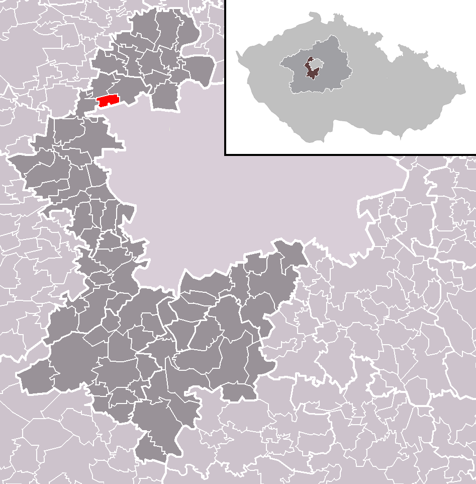 Location of Kněževes municipality within Prague-West District and administrative area of Černošice as a Municipality with Extended Competence.